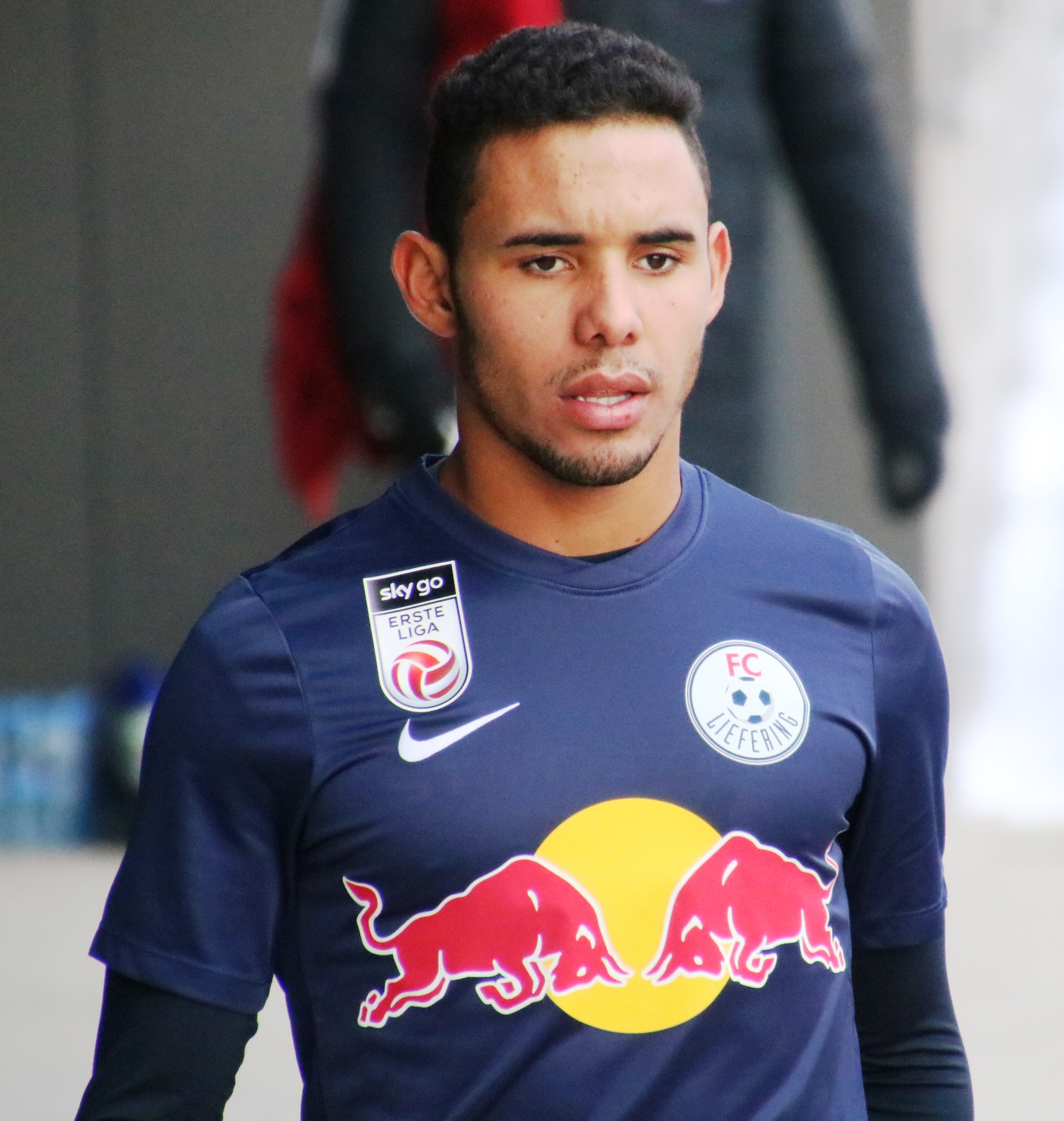 preseason match